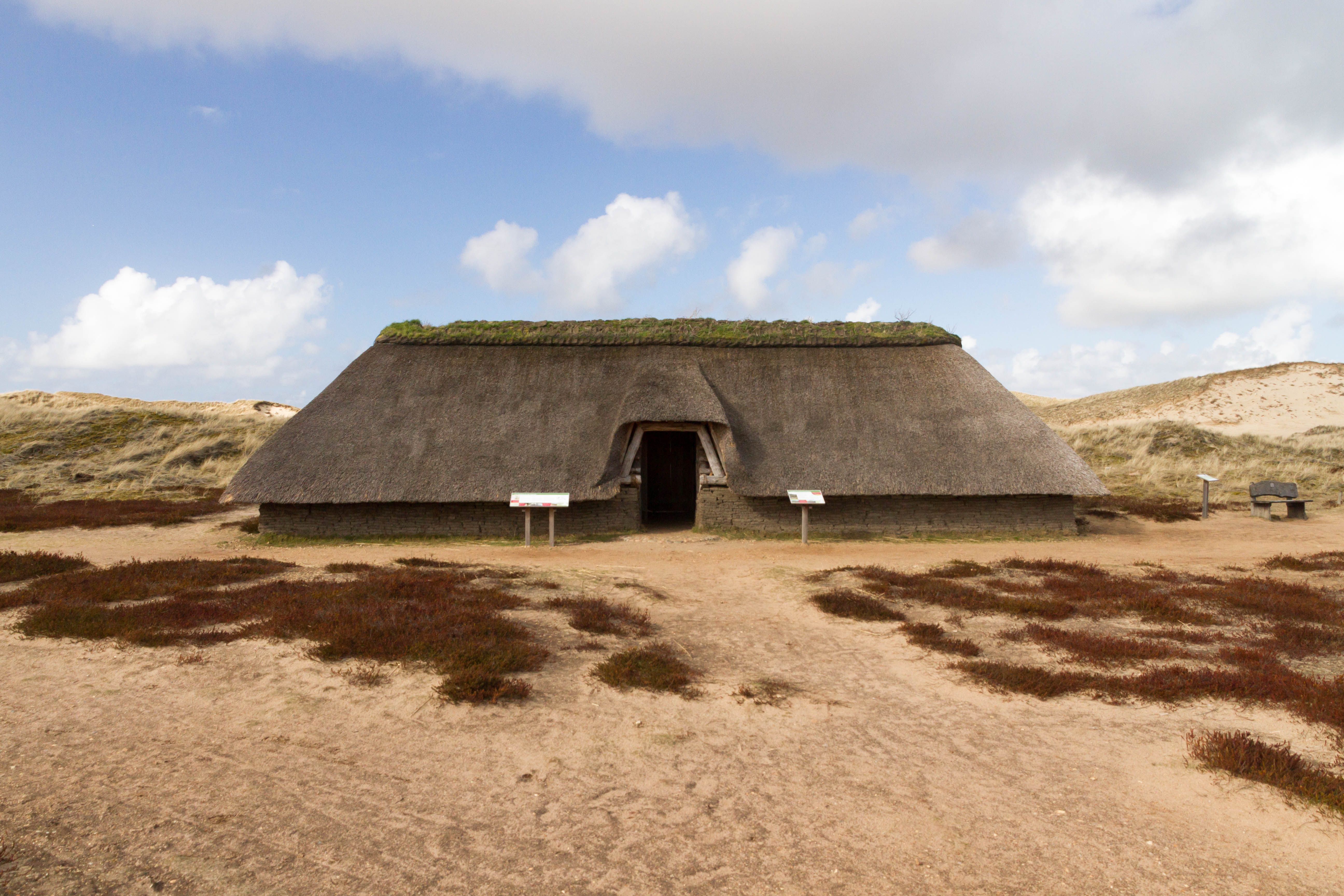 Nebel, Amrum, Schleswig-Holstein, replica of iron age house (interior) in the dunes, erected in 2014